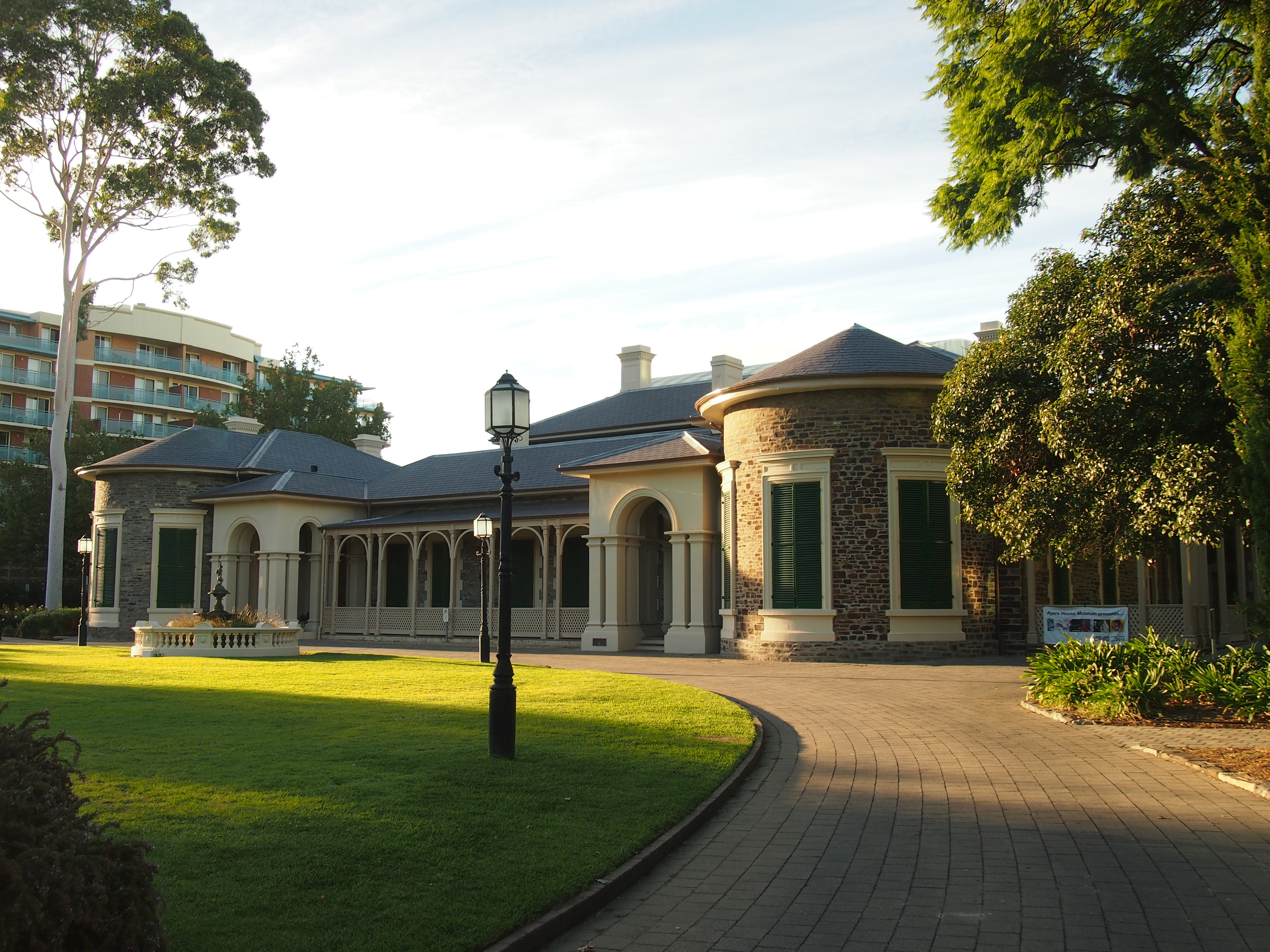 Ayers House, North Terrace Adelaide. Original filename = P3155343.JPG